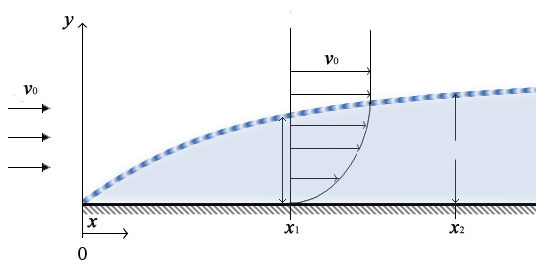 picture of boundary layer without Japanese explanation